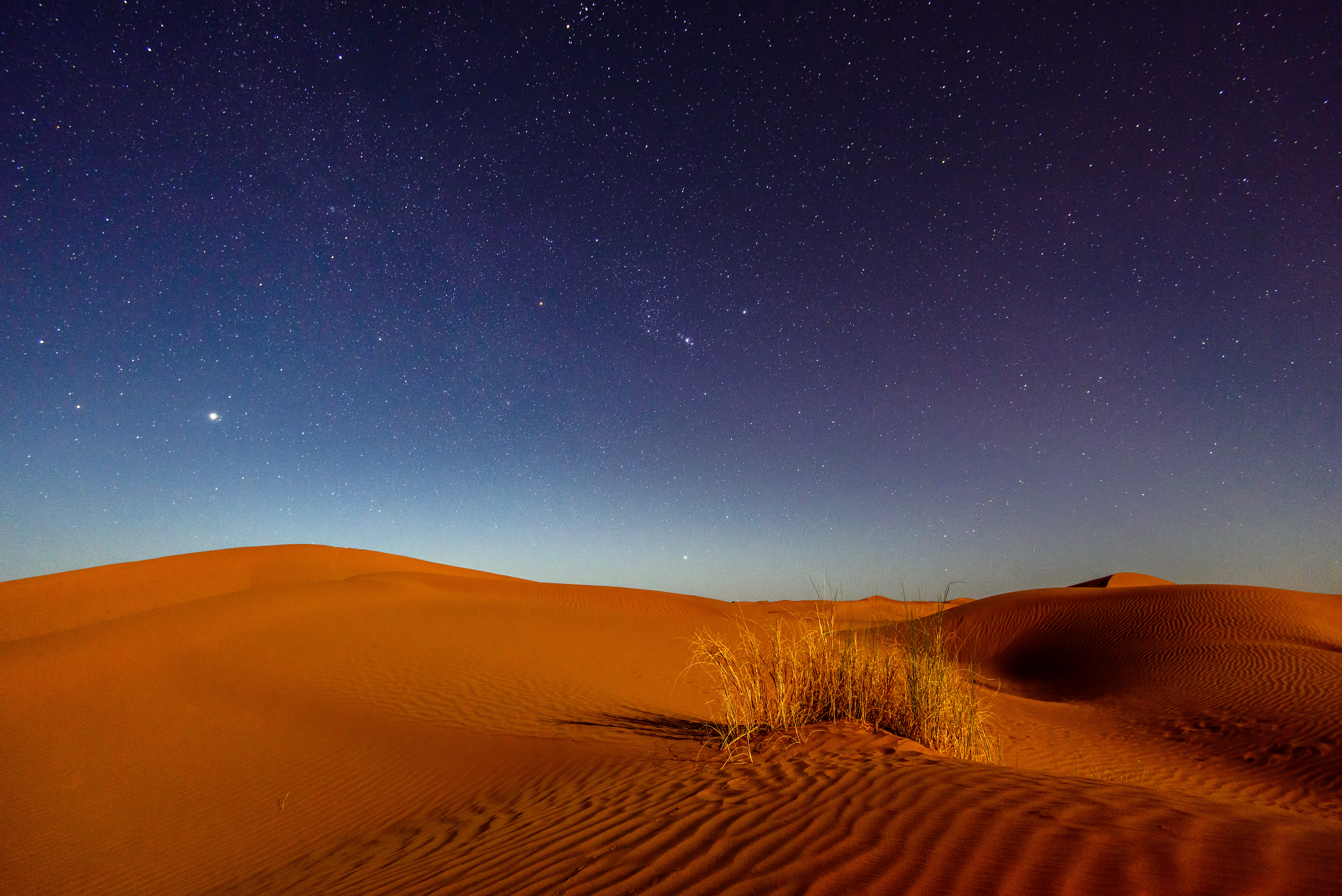 Moonlight in the Sahara, Morocco.